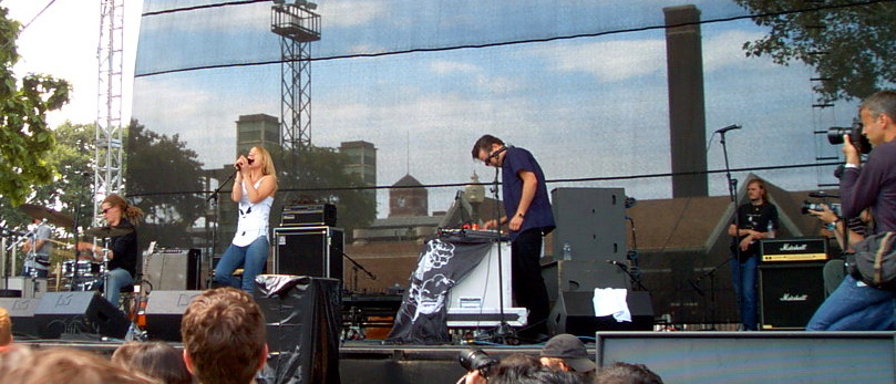 Annie performing at the Intonation Music Festival in Chicago, Illinois, United States